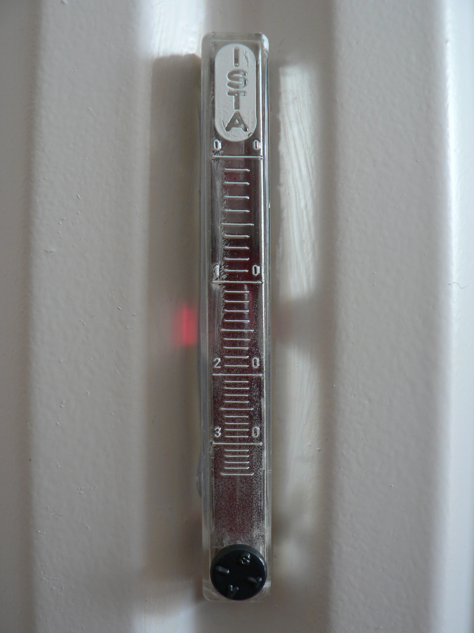 Device to quantify the use of the individual radiator in a common central heating system. The total number of evaporated units of all radiators corresponds to the total volume of heating oil used.